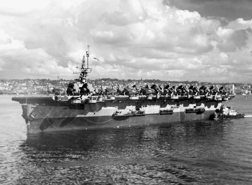 The U.S. Navy Casablanca-class escort carrier USS Solomons (CVE-67) leaving San Diego, California (USA), on 31 December 1943.